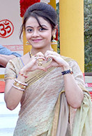 Mohammad Nazim and Devoleena Bhattacharjee during the promotion event of Dilwale